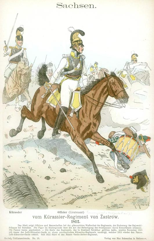 Sachsen.Kürassier-Regiment von Zastrow. 1812